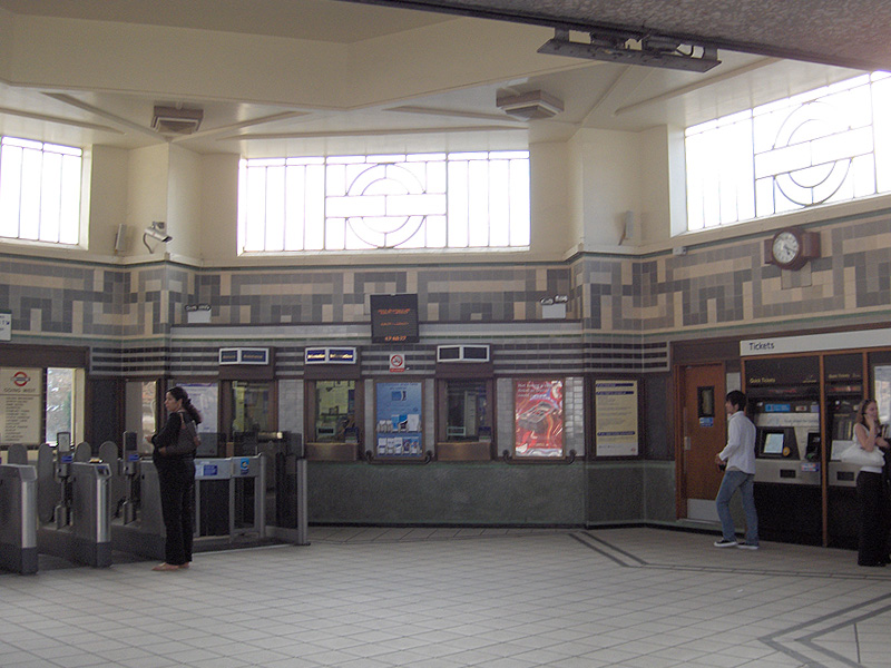 Ealing Common underground station interior (September 2006)